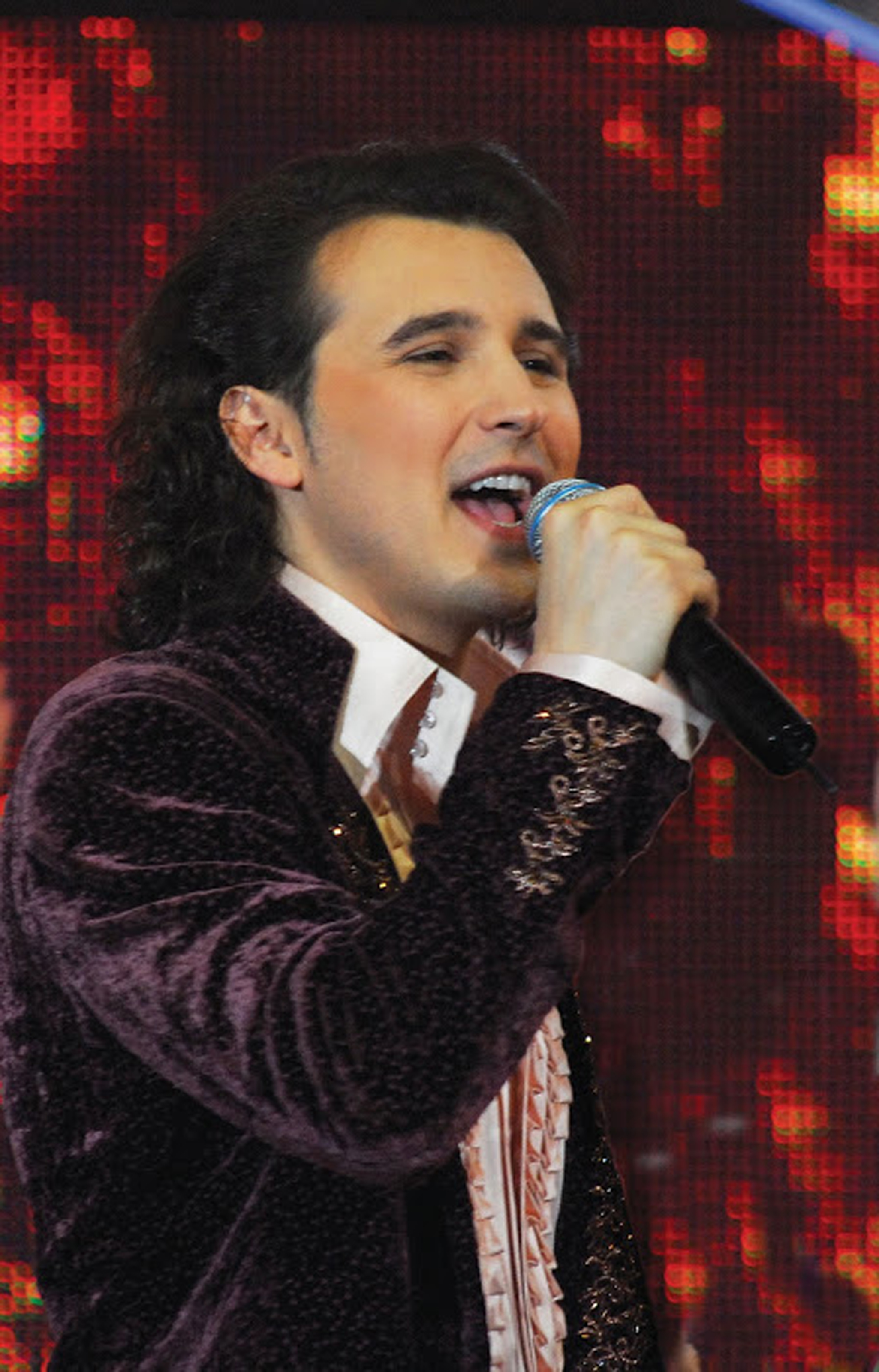 Yaremchuk Dmytro,singer,Ukraine